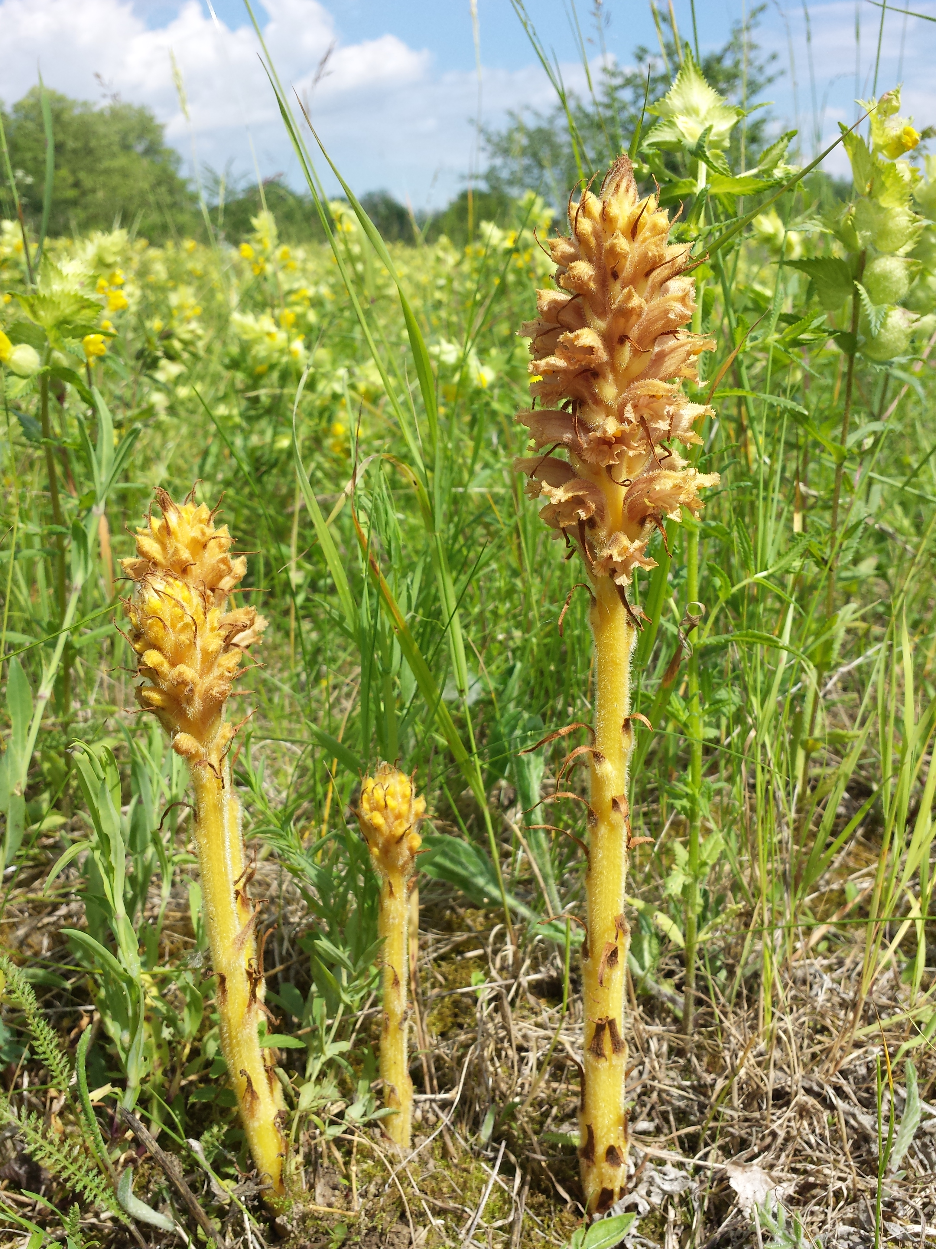 Habitus Taxonym: Orobanche elatior ss. Jiří Zázvorka: Orobanche kochii and O. elatior (Orobanchaceae) in central Europa, in: Acta Musei Moraviae, Scientiae biologicae, 95 (2), 77–119, Brno 2010, ISSN 1211-8788 Location: between Limberg and Niederschleinz, district Hollabrunn, Lower Austria - ca. 260 m a.s.l. Habitat: poor grassland